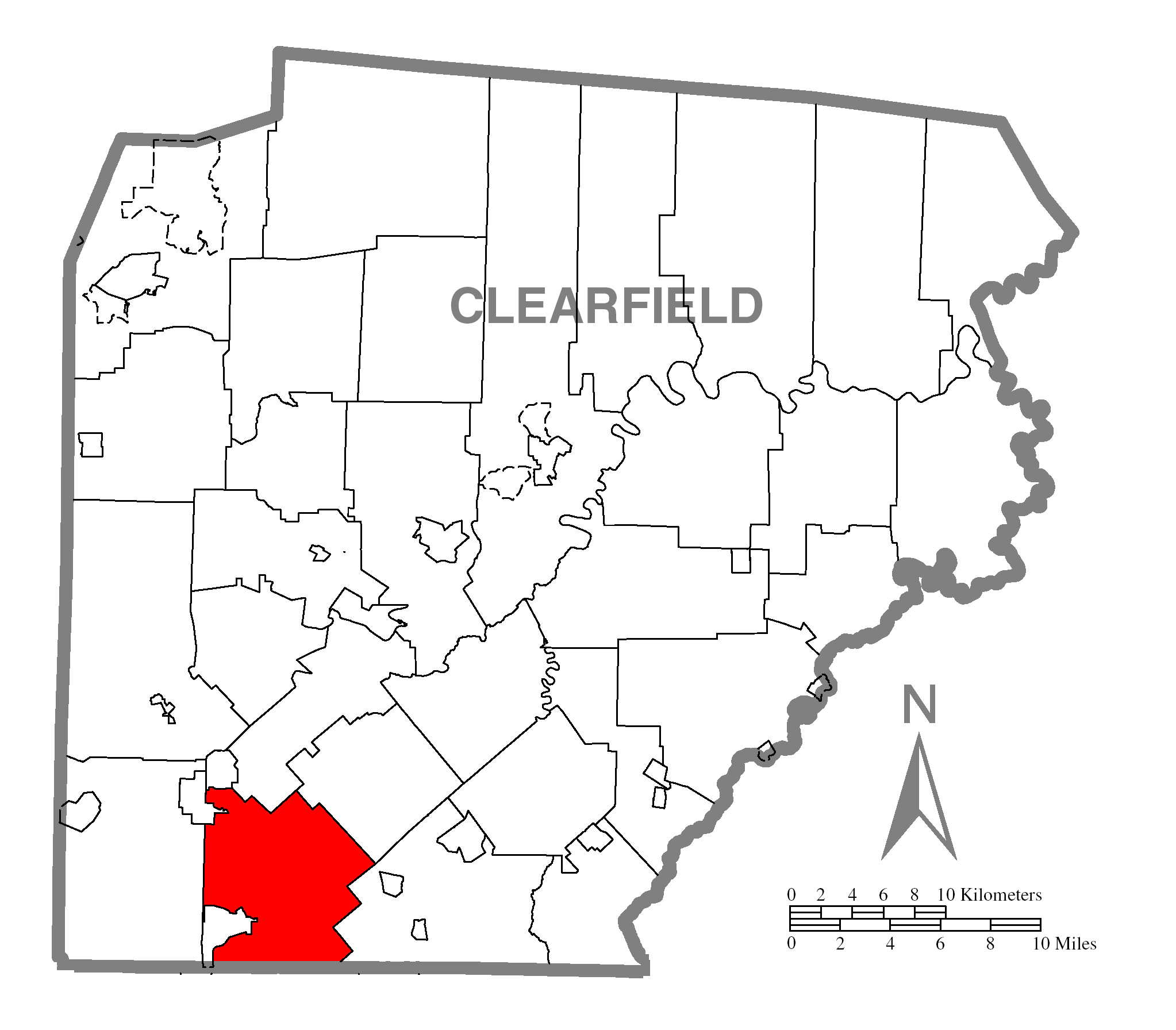 A map of Clearfield County showing Chest Township, Pennsylvania (alternate) highlighted on the map.